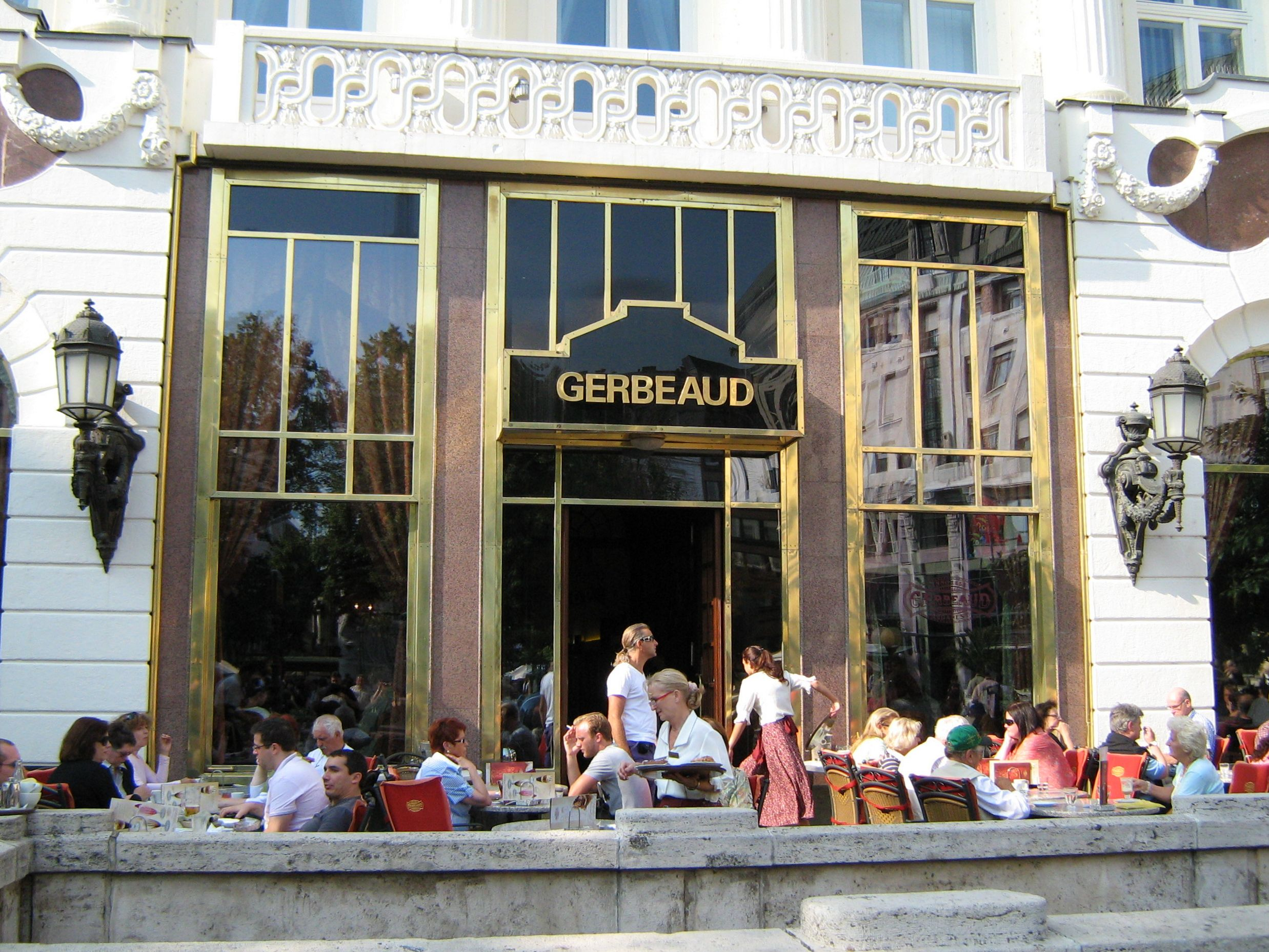 Outside Cafe Gerbeaud